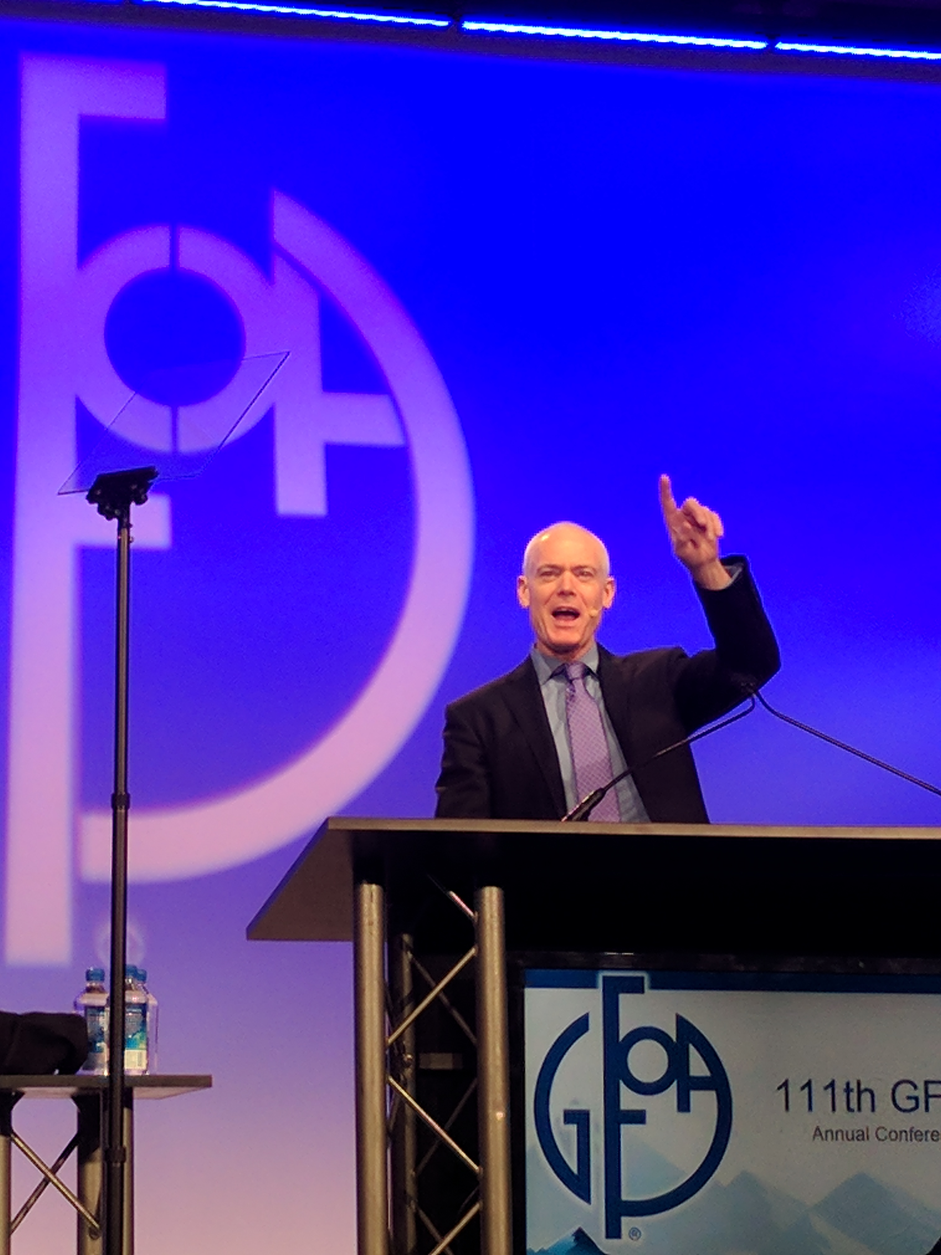 American business consultant and public speaker James C. Collins, in Denver, Colorado, May 2017